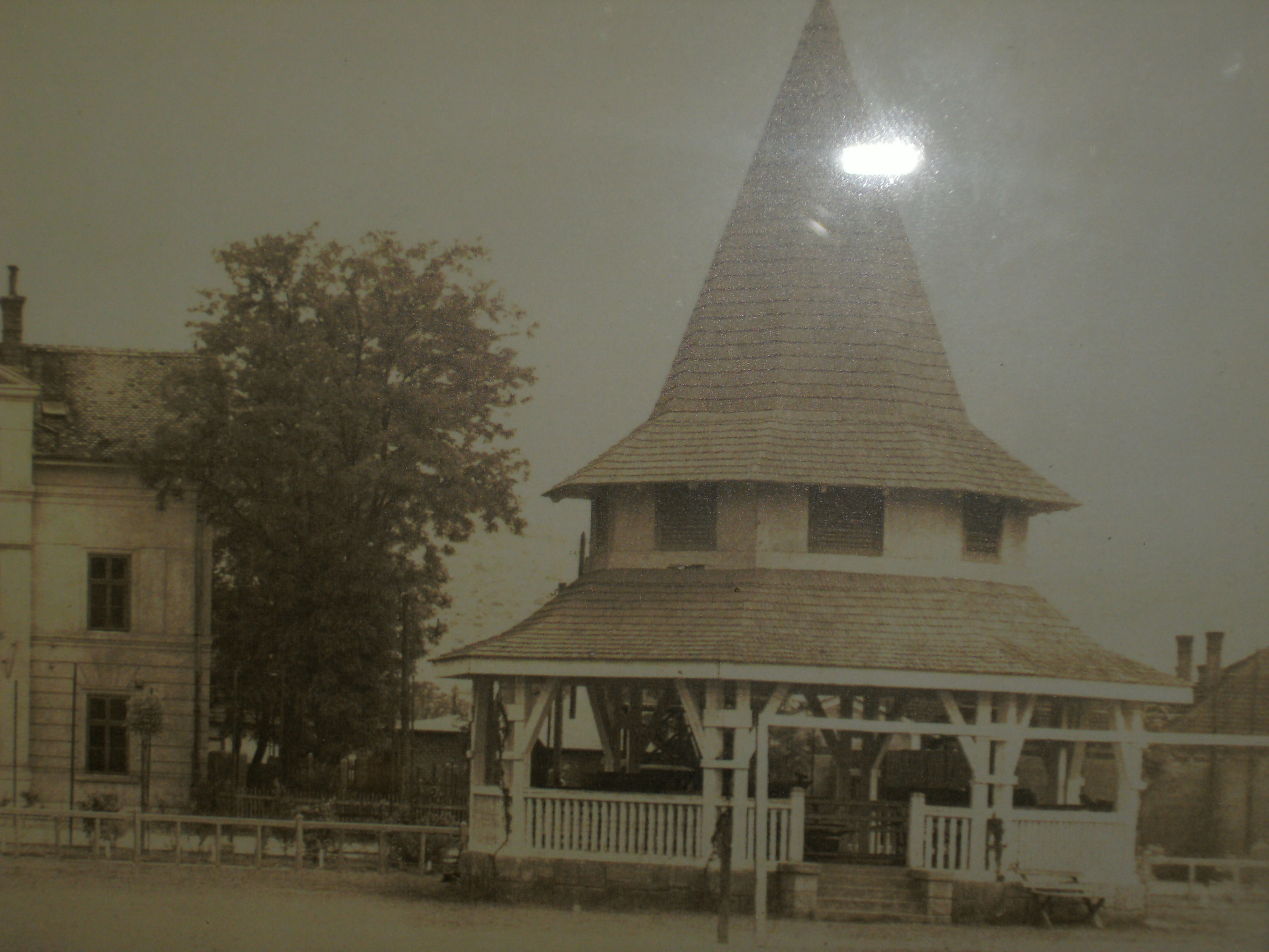 Very nice and famous objectum. Builder was Zoltan Gathy in 1925.